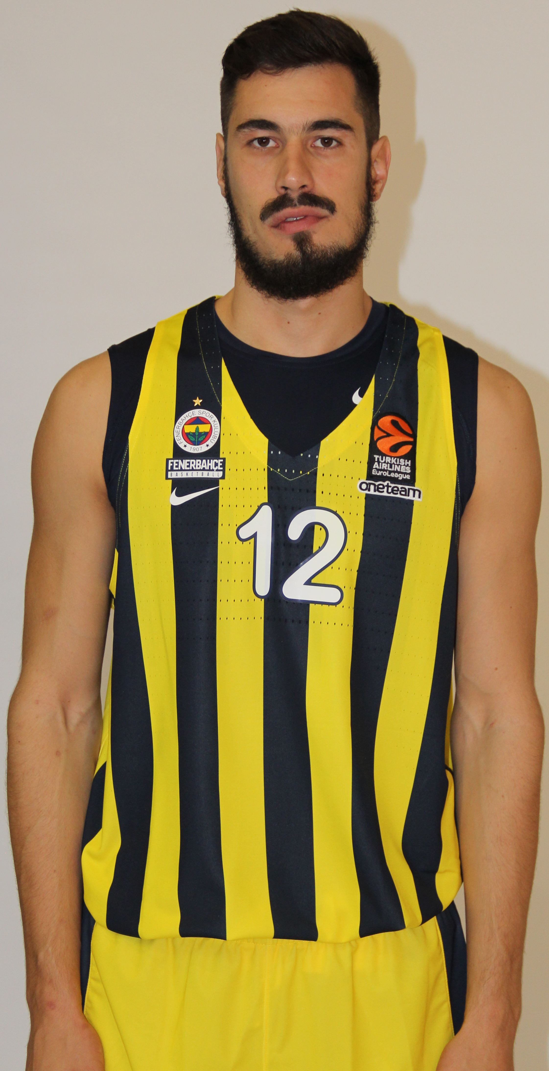 Nikola Kalinić Fenerbahçe Basketball Media Day 20180925